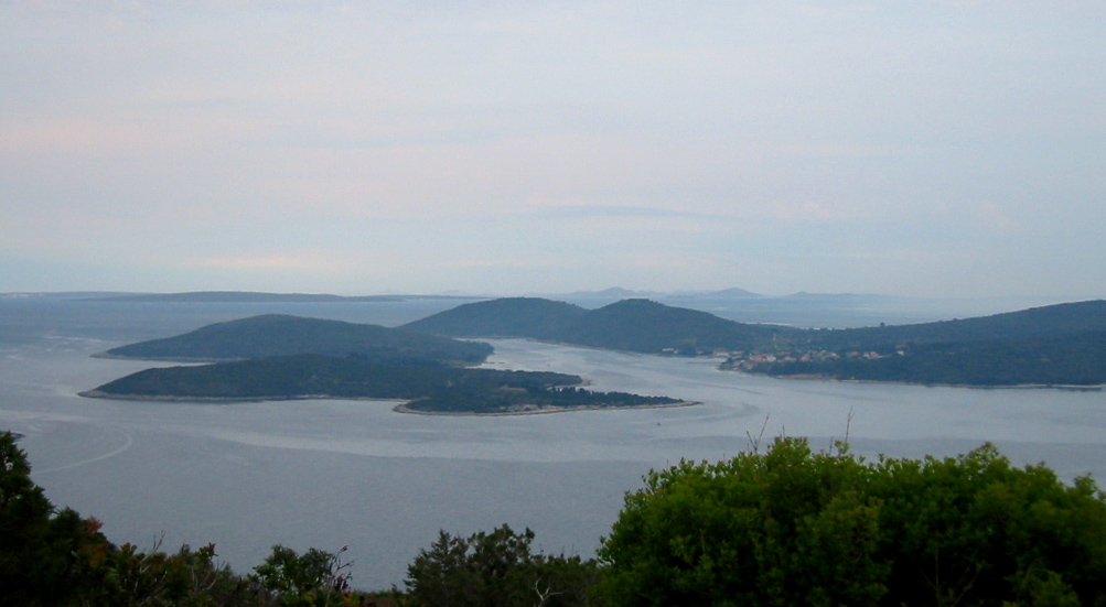 Ilovik, island in Croatia, view from Lošinj photo:Ziga 10:42, 16 April 2007 (UTC)